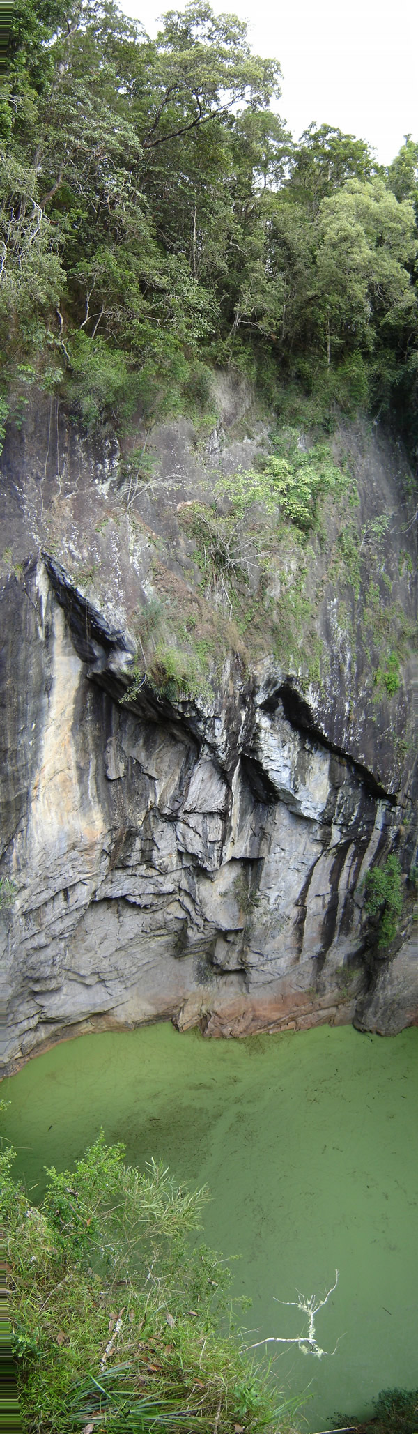 This panorama was taking by myself. The author is Dan Miles.